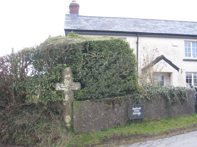 Southcott Cross This cross is very rare, if not unique, in Devon in having a human figure in the form of a crucified person incised on its roadside face. It is probably of 13th century origin, but the first records of it are from its current position in the early 19th century. It is suggested that it could, originally, have been a waymarker for the Cistercian Monks of Brightley Priory, which stood on the banks of the West Okement River, near Okehampton Castle.